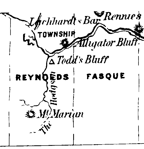 A map of Reynolds Hundred in the Roper River basin based on a 1886 map by John Sands.[1]